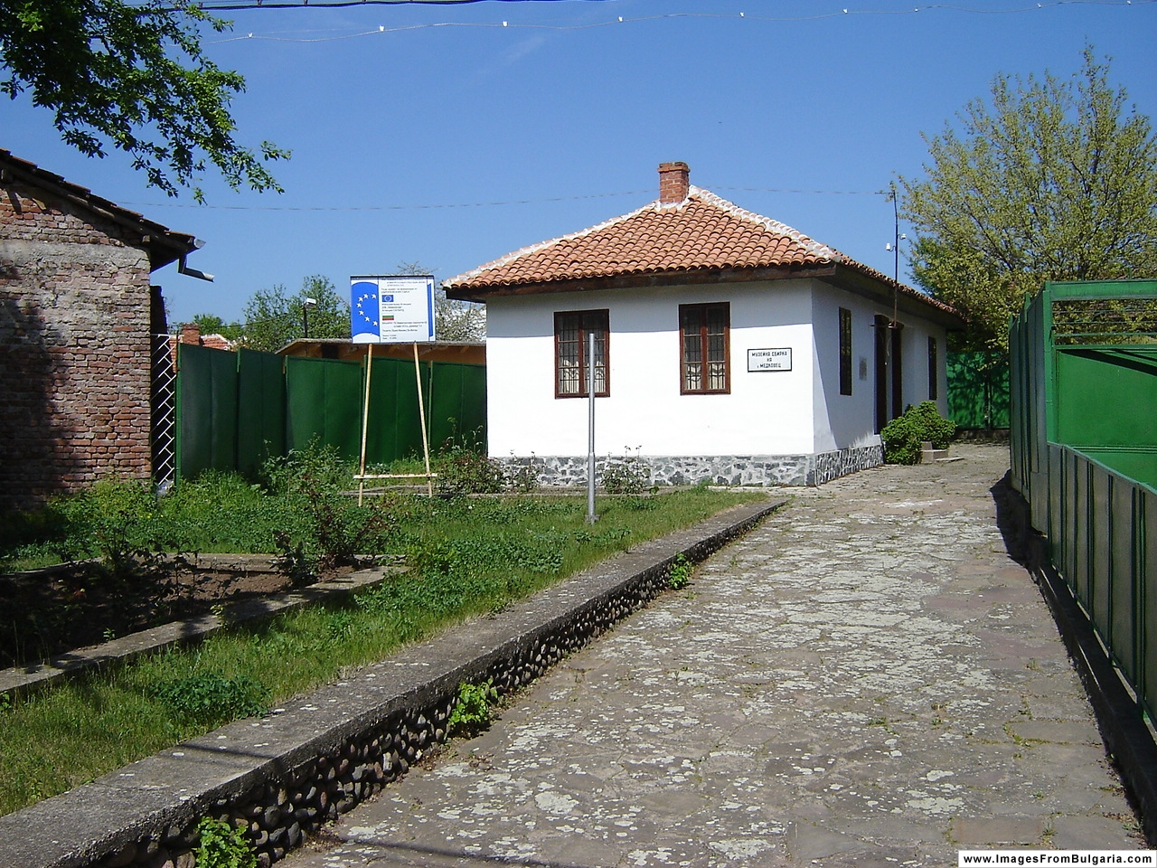 Museum in Medkovets, Bulgaria